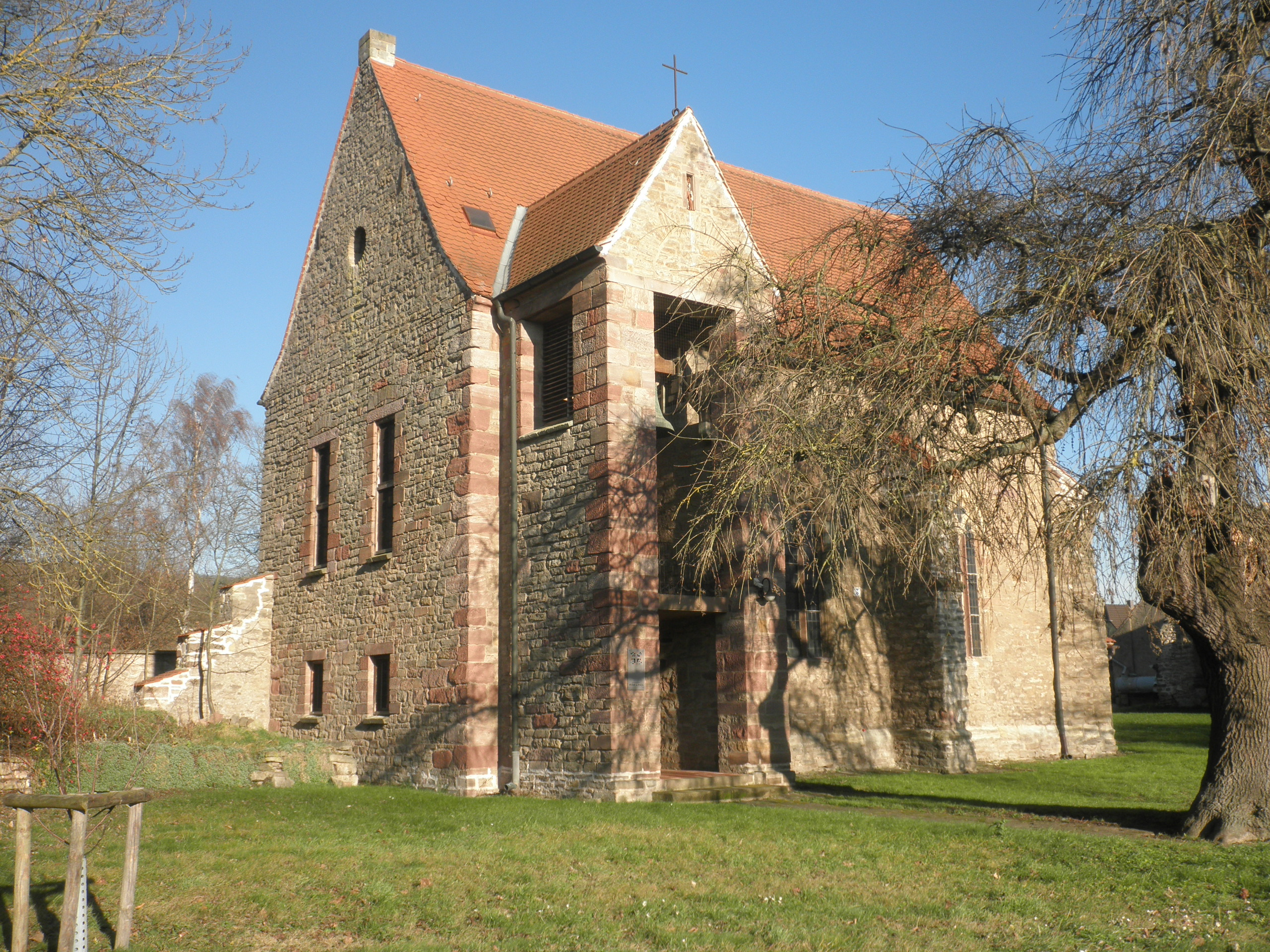 Wallhausen (Helme) Church in 2017